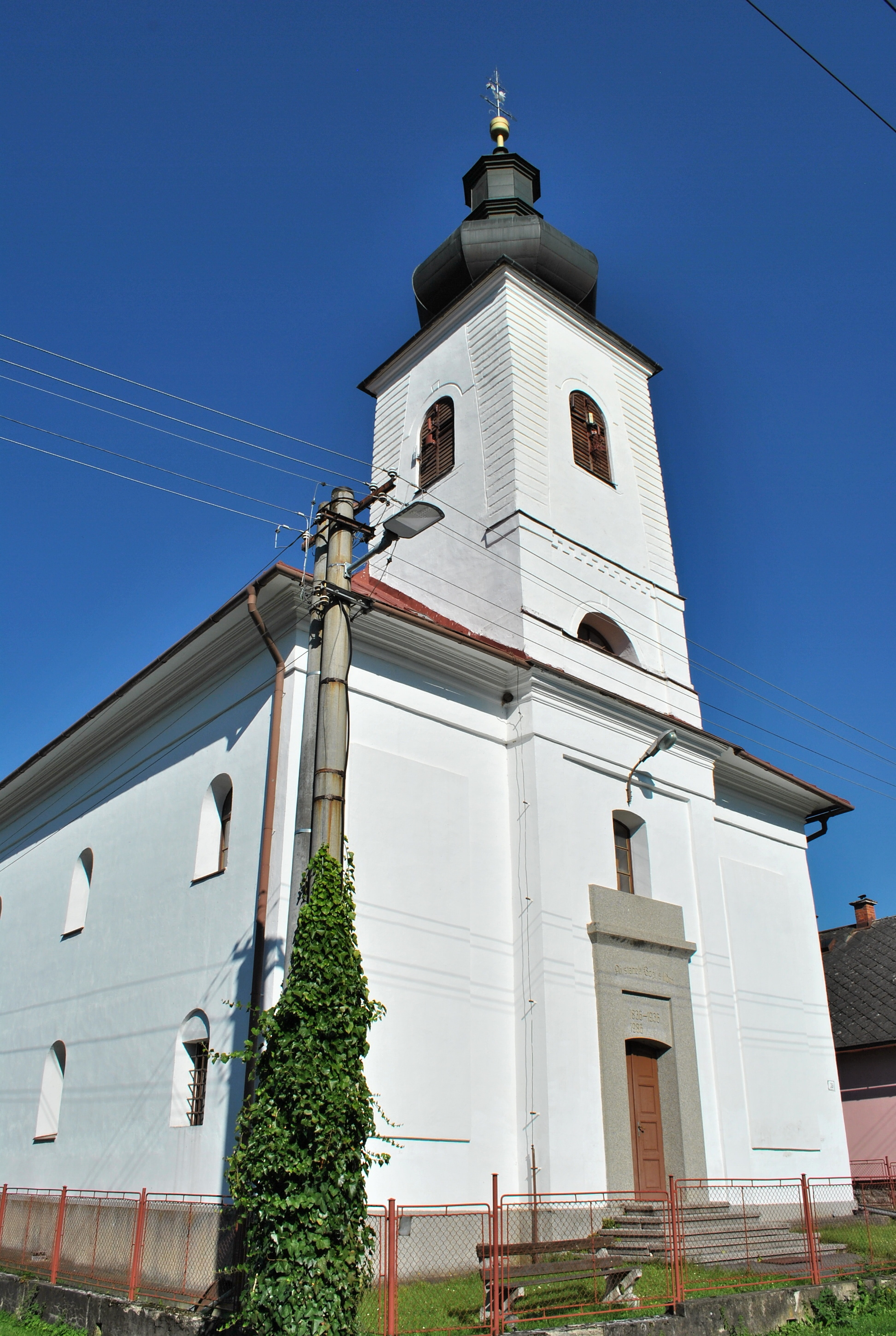 Jasenová, Slovakia - Evangelical (Lutheran) church, built in 1836